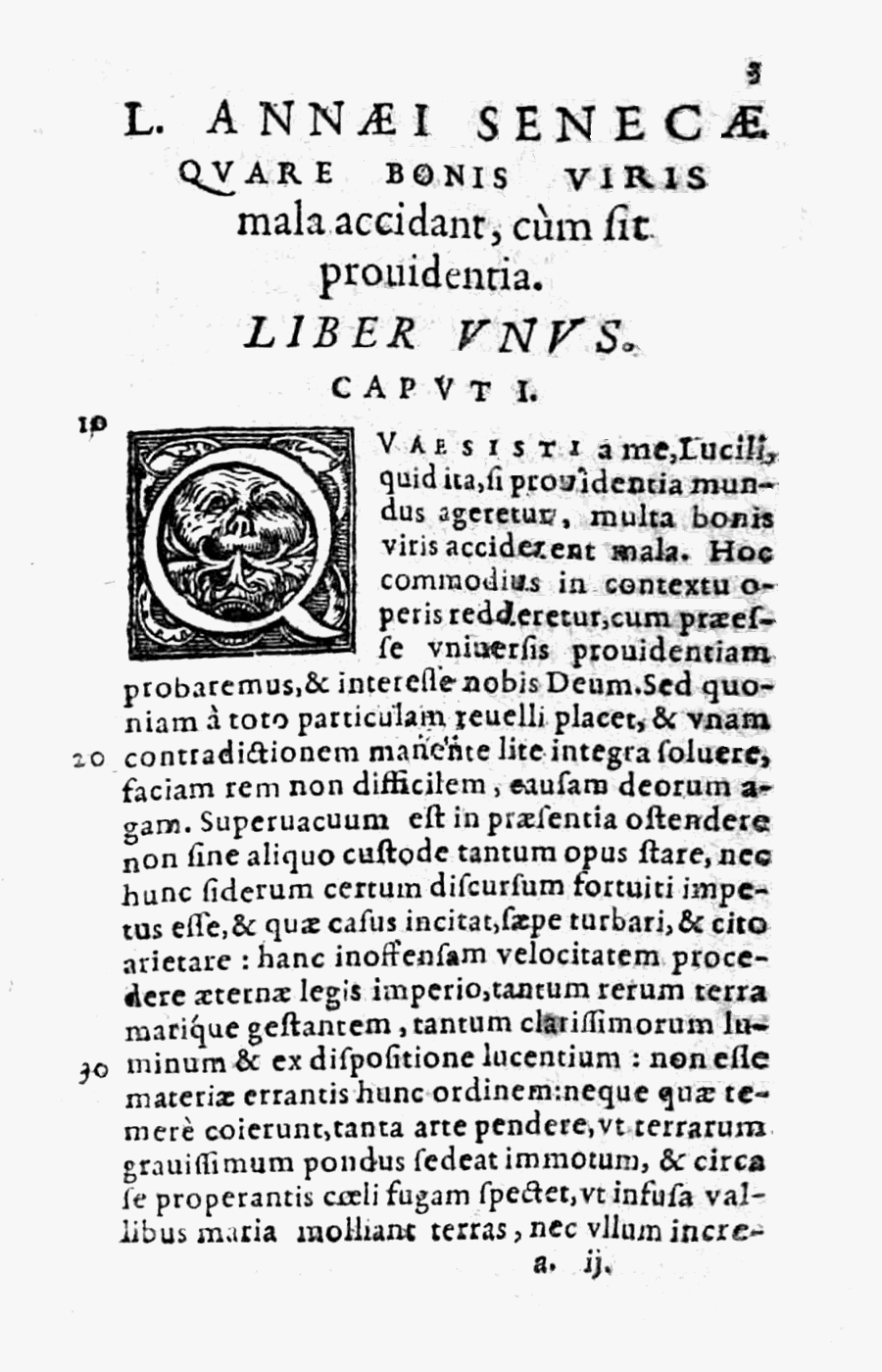 Page 3 of L. Annaei Senecae operum tomus secundus. (1594). Published by Jean Le Preux.